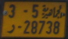 Libyan license plate for taxis